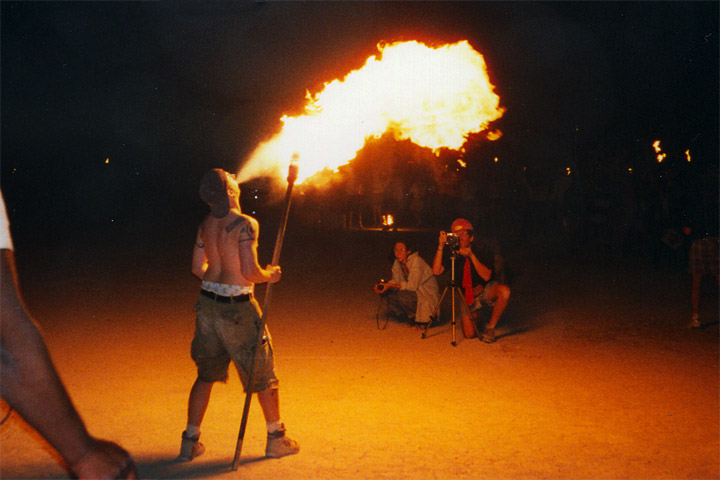 Fire breather